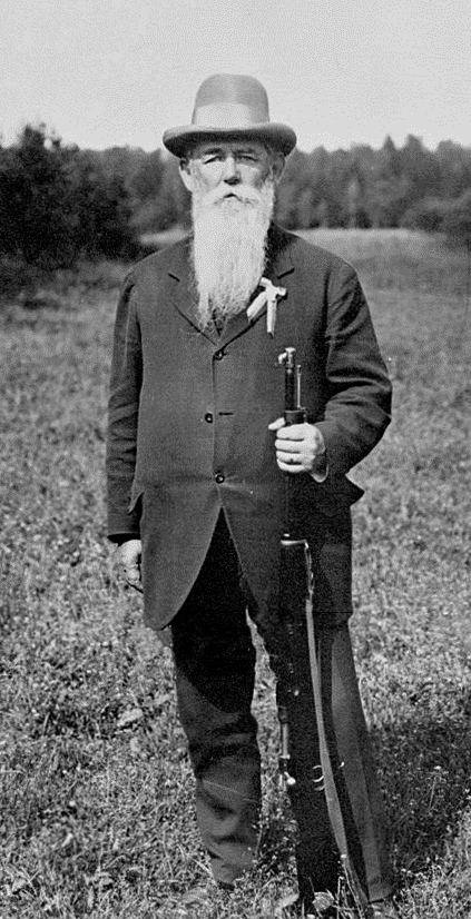 Portrait of Oscar Swahn of Sweden, a competitor in the Running Deer Shooting event, standing with his rifle during the 1912 Olympic Games in Stockholm, Sweden. Swahn won the Individual bronze medal for the Double Shot event, was placed fifth in the Single Shot event and won a gold medal in the Team event.